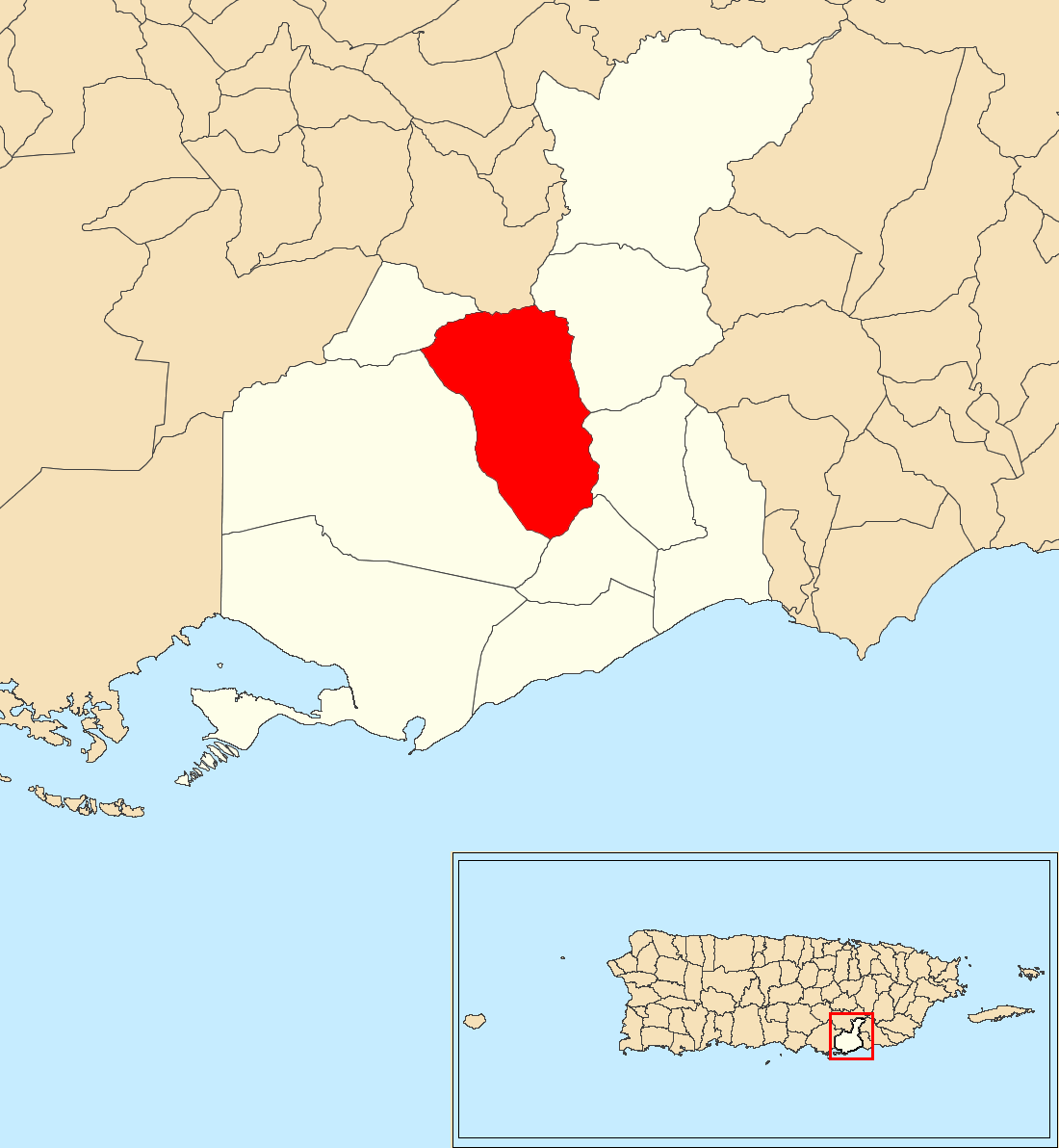 Palmas, Guayama, Puerto Rico locator map